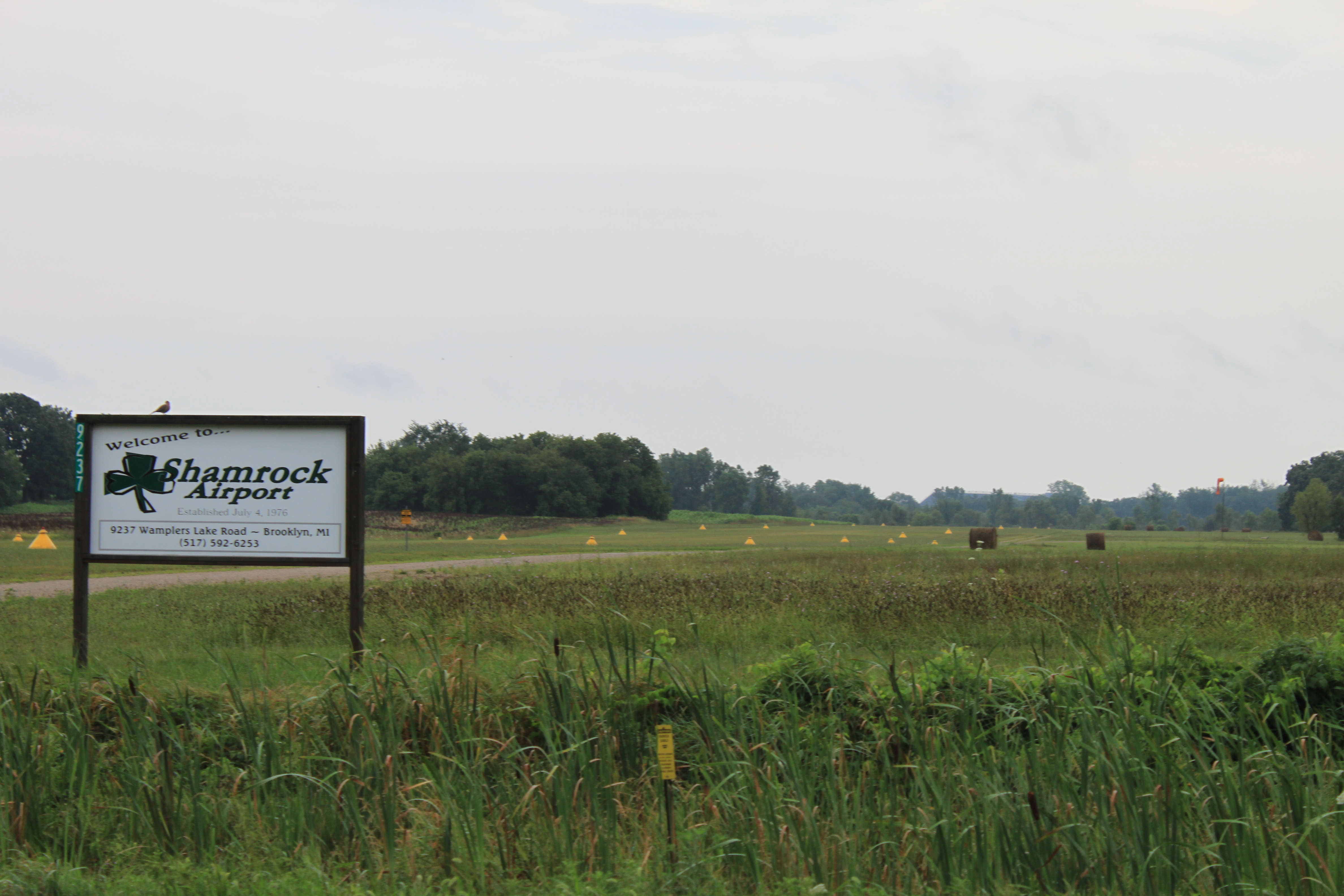 Shamrock Airport Entrance viewed from Wamplers Lake Road, 9237 Wamplers Lake Road, Brooklyn Michigan